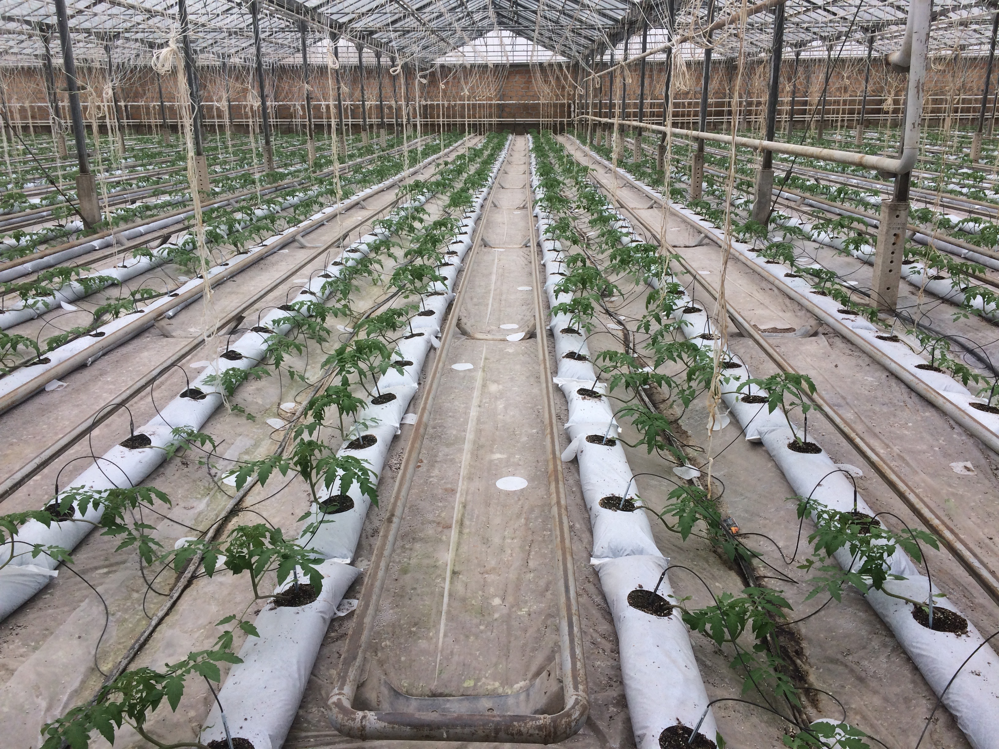 Hydroponic Greenhouse in Armenia.